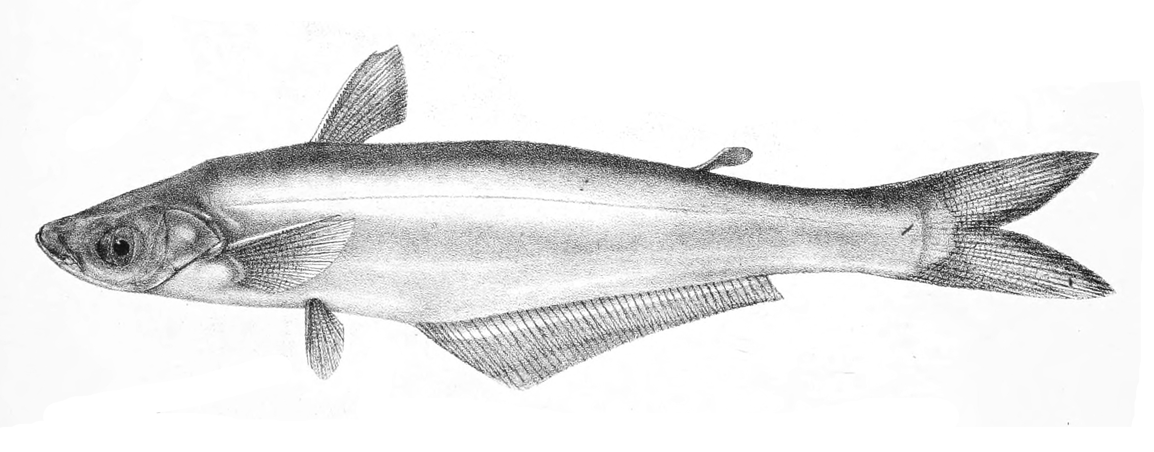 Silonia silondia syn. Silundia gangeticaThe species names / identity need verification - original names from plate are included here. The original plates showed the fishes facing right and have been flipped here. Silundia gangetica